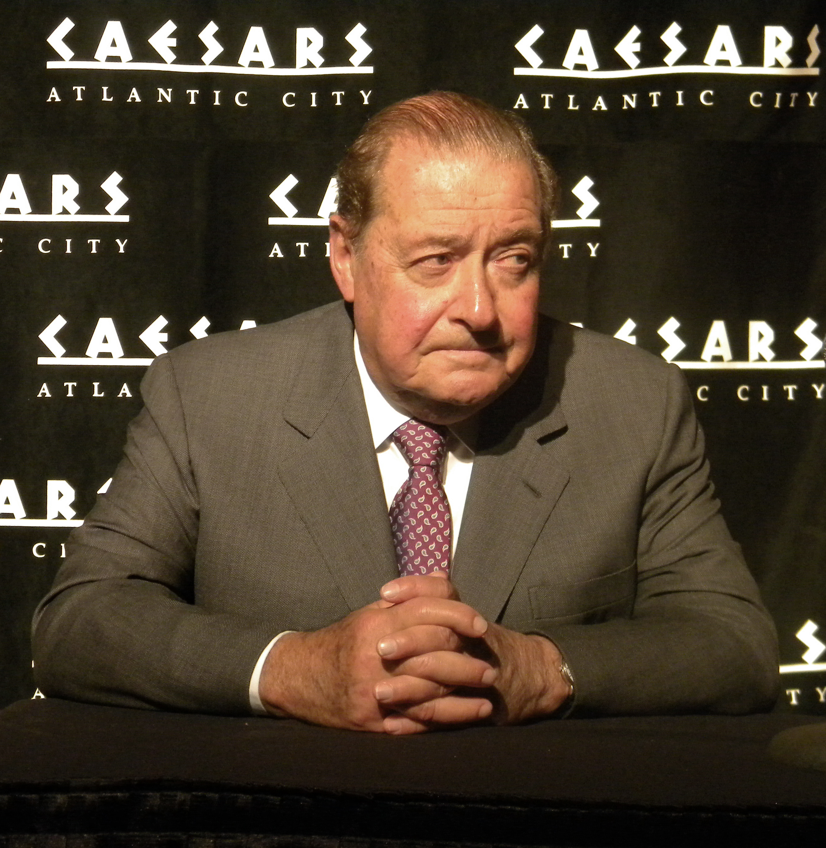 Boxing promoter Bob Arum at the Kelly Pavlik-Sergio Martinez post fight press conference at Boardwalk Hall in Atlantic City, April 18, 2010